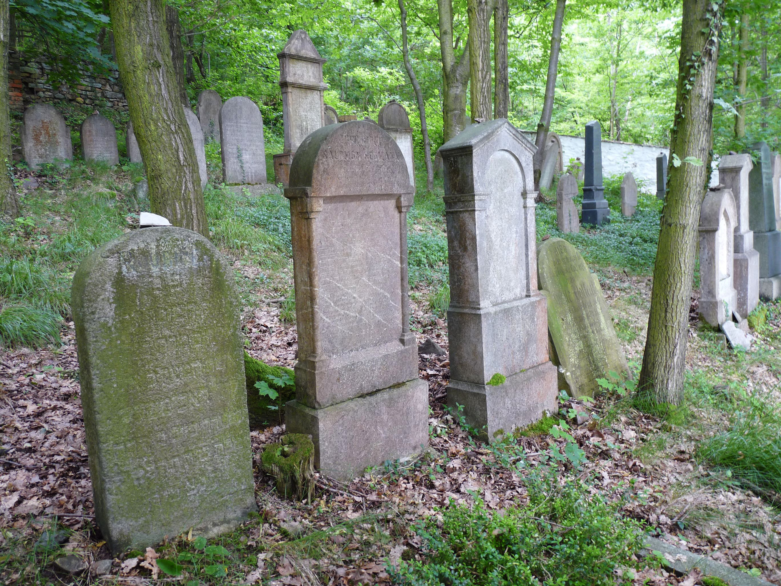 Gravestones in the Jewish cemetery near the villages of Běštín and Hostomice, Beroun District, Central Bohemian Region, Czech Republic.